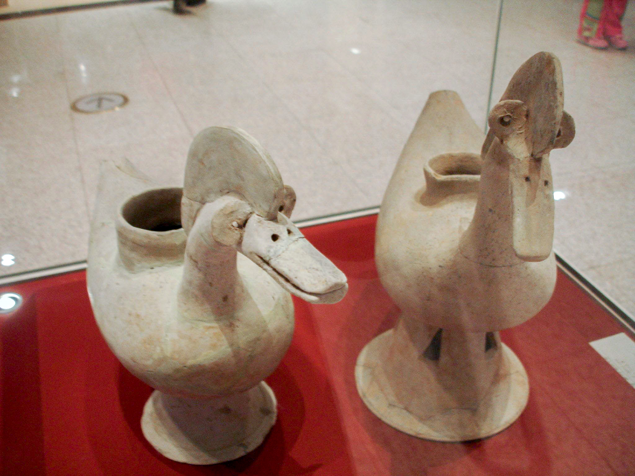 Duck-shaped pottery at the National Museum of Korea. Earthenware, H. (left) 34.4 cm